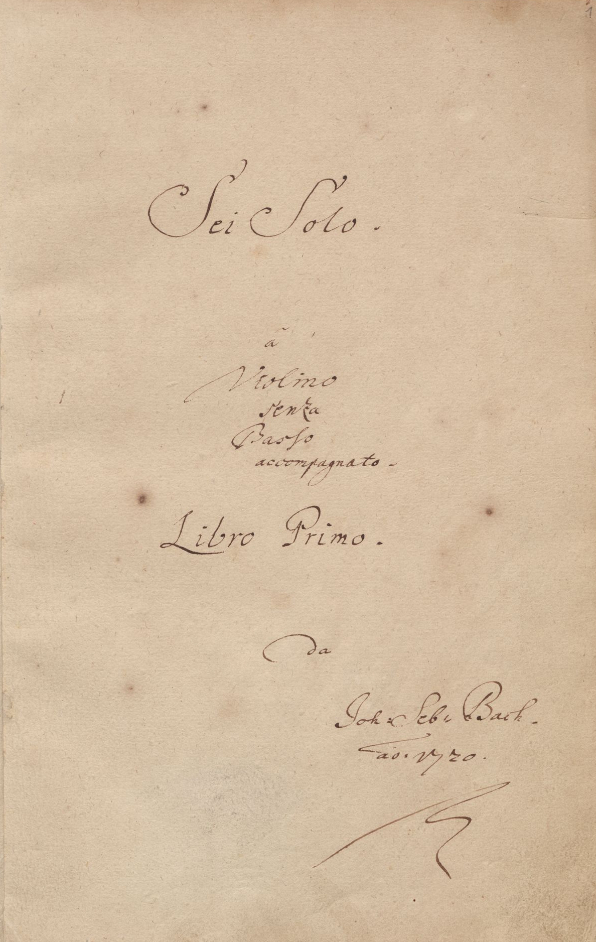 Title page for the colection of six sonatas and partitas for solo violin, BWV 1001−1006, by J.S. Bach, autograph manuscript. Medium resolution image, slightly cropped. For different magnifications, please use the zoom button.